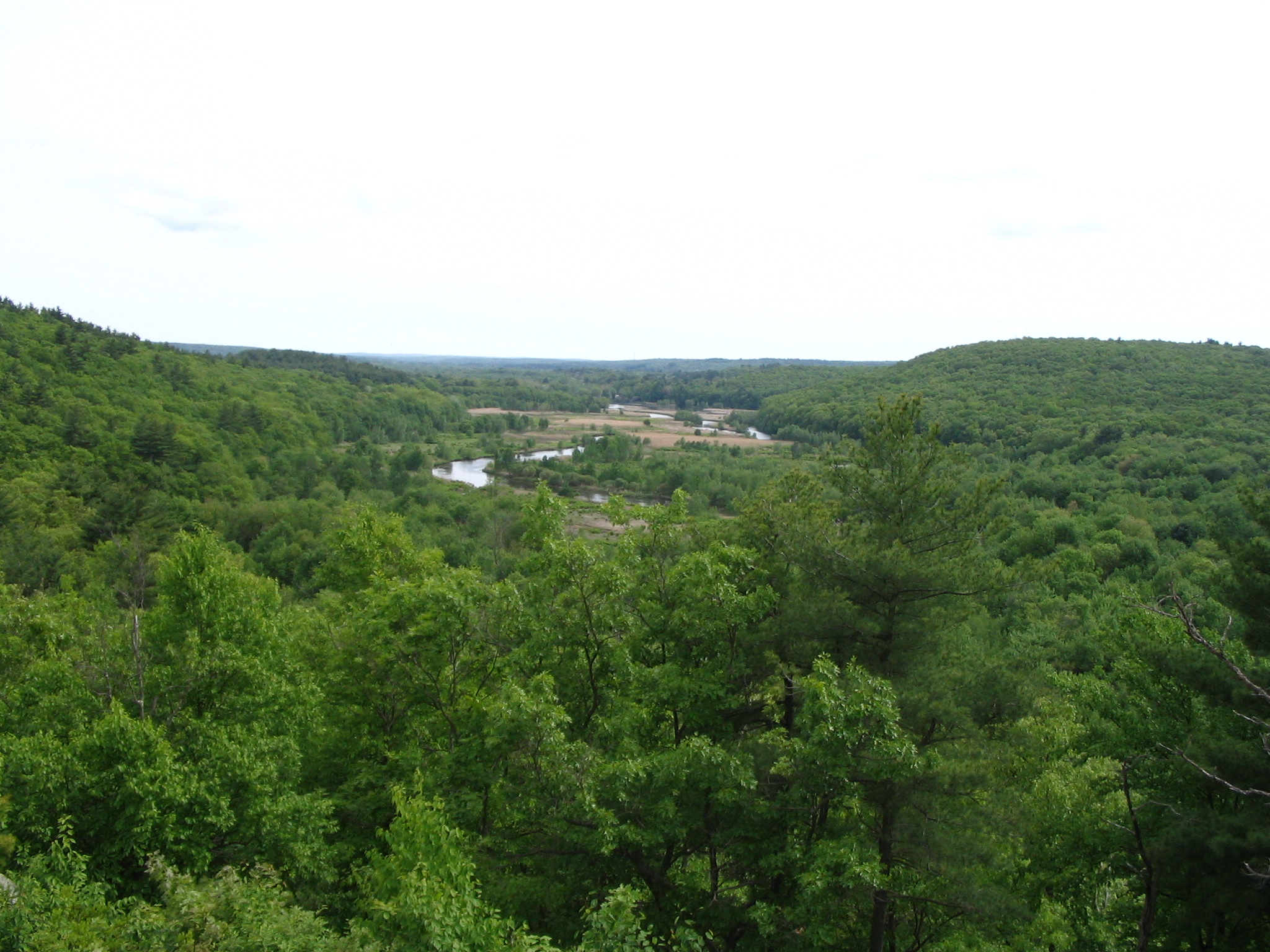 I took this picture myself from the locally-known King Phillips rock near Uxbridge, Massachusetts.